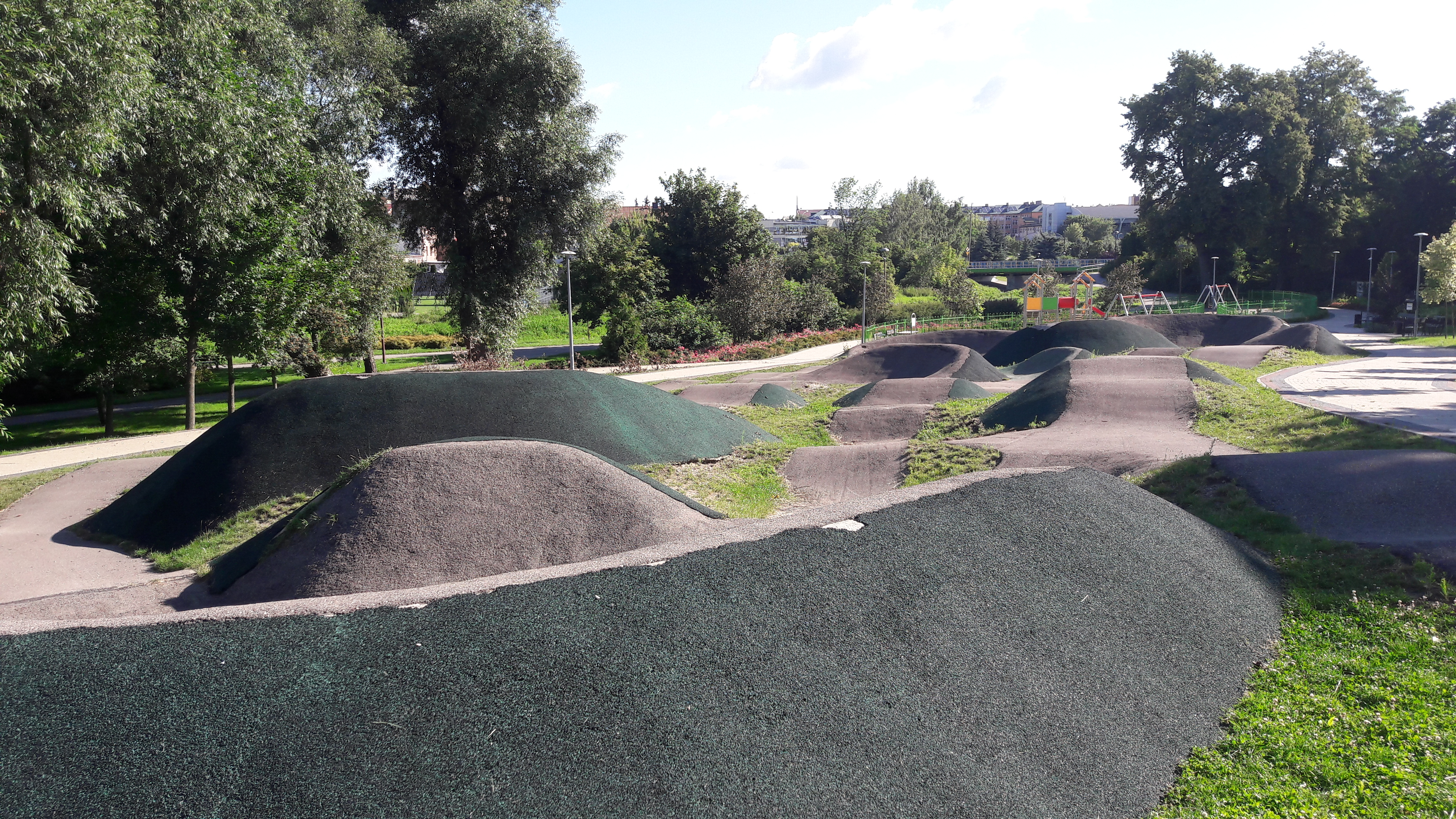 Skatepark